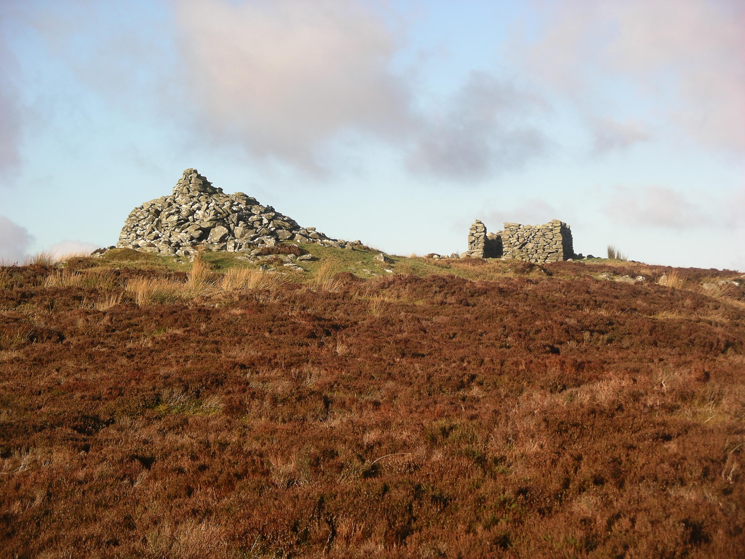 The summit of Mwdl-eithin